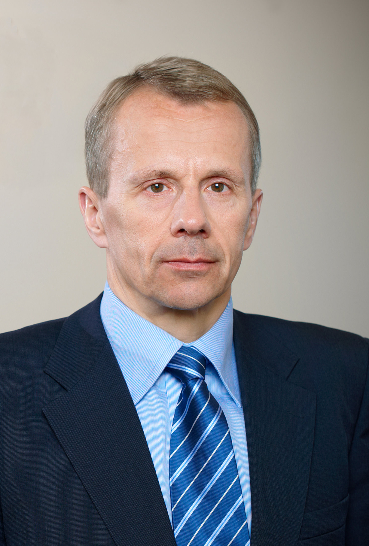 Jürgen Ligi